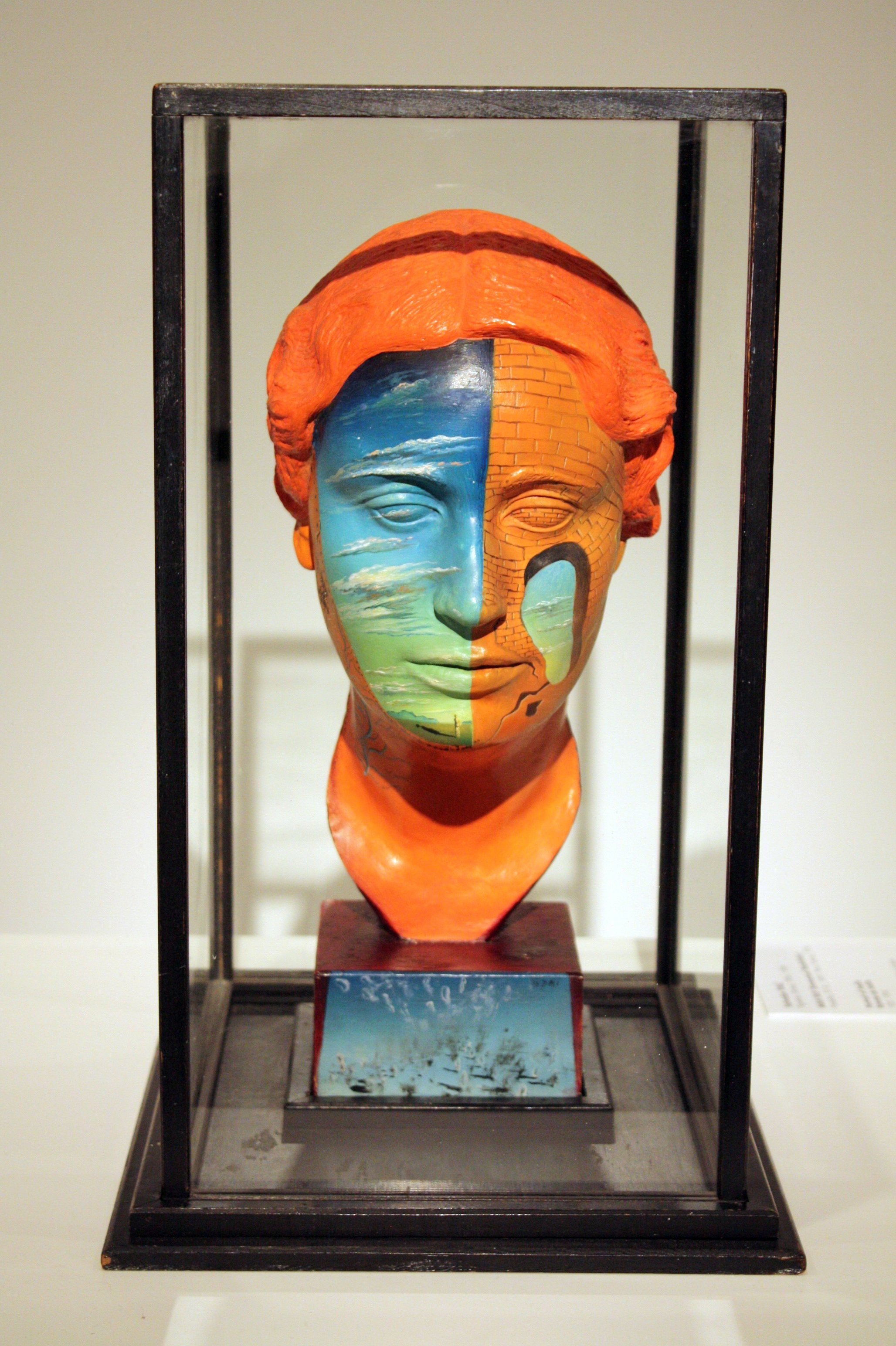 Museum Museo "Reina Sofia" Madrid Art Contemporary Picasso Sculpture Strange